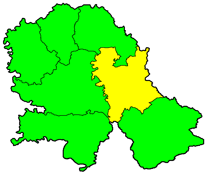 Map of Central Backa